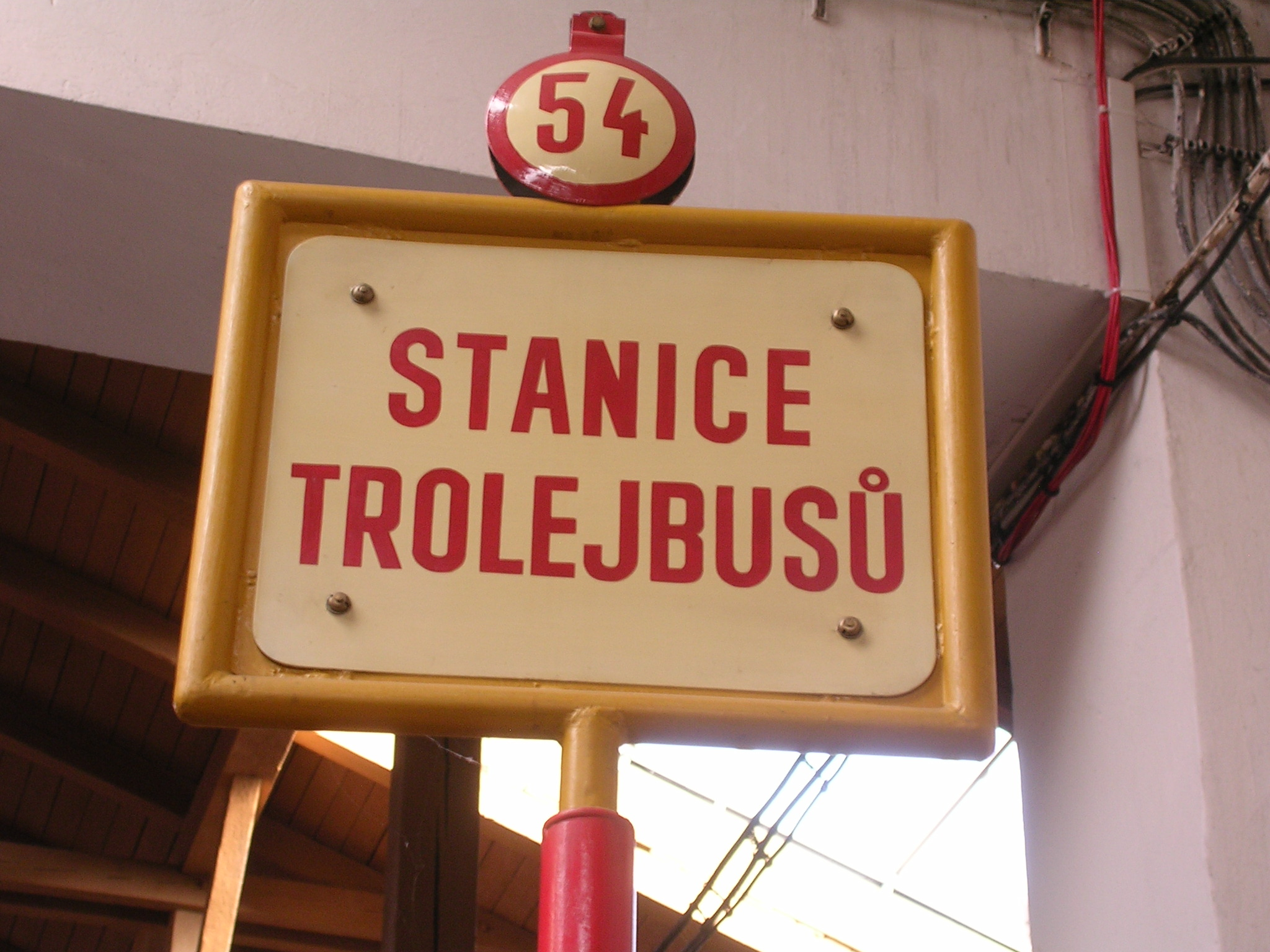 Střešovice, Prague, the Czech Republic. Střešovice tram depot and transport museum. Trolleybus stop sign.